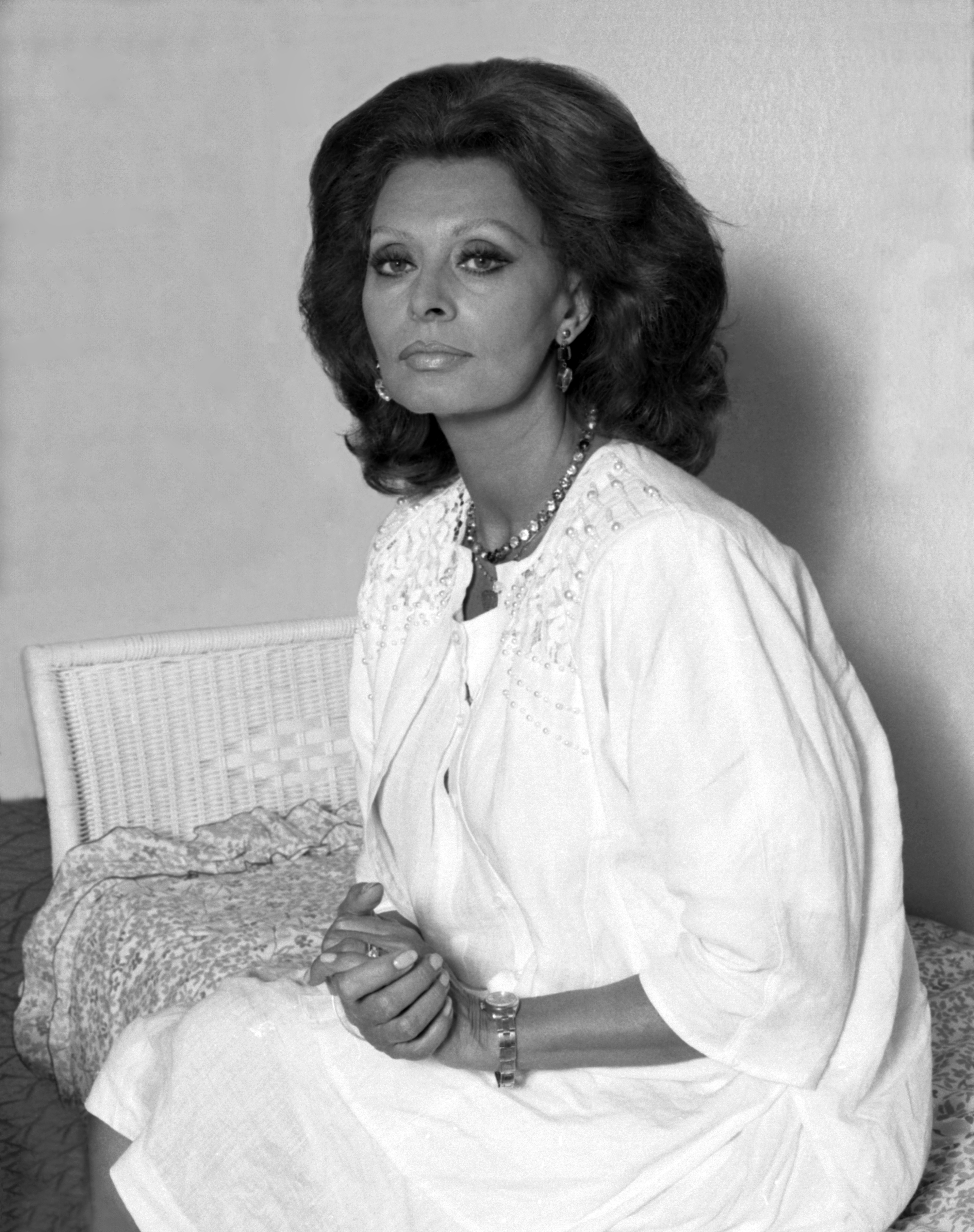 Sophia Loren